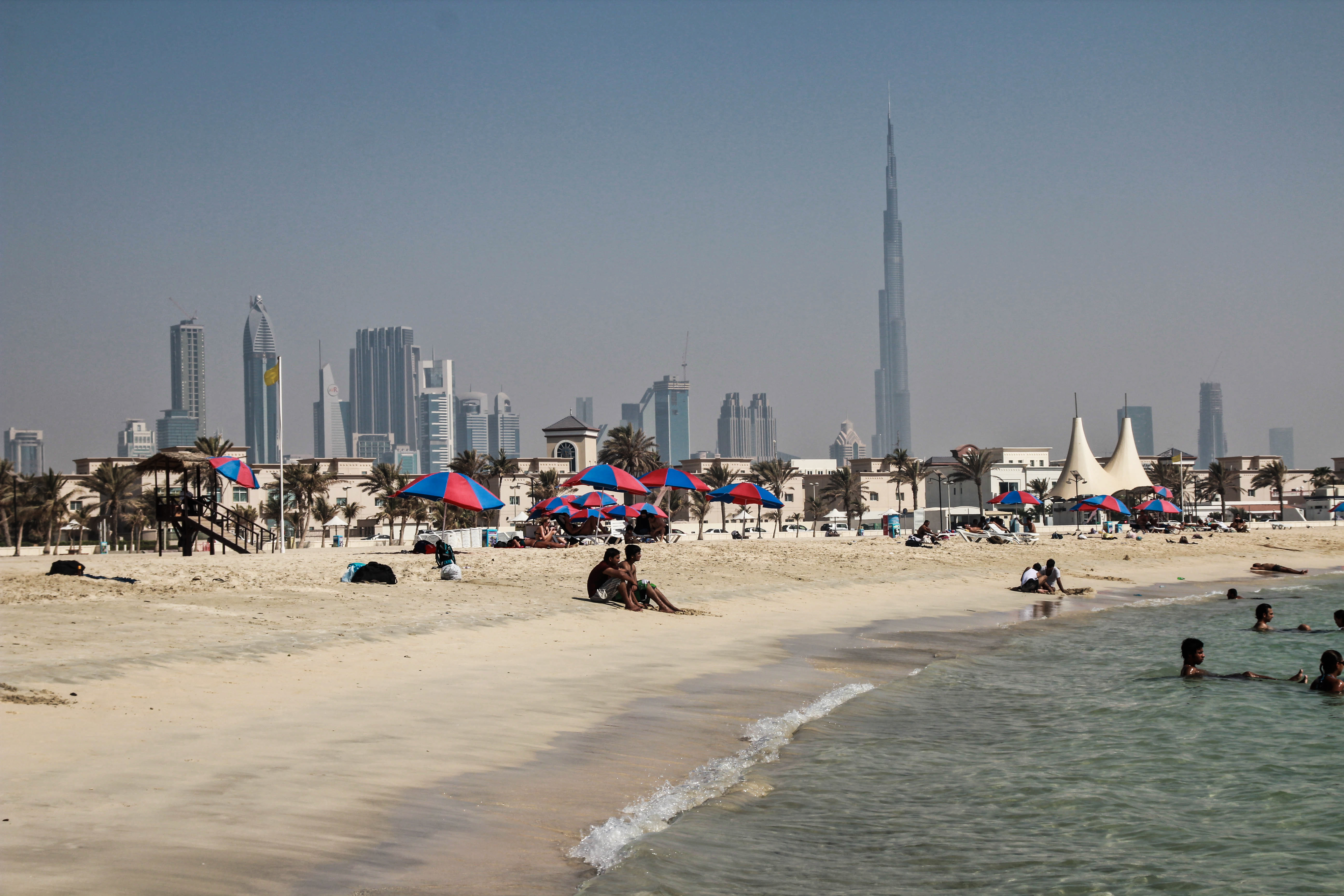 Strand in Dubai